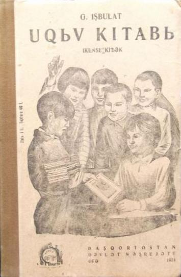 Bashkir book in Latin script for primary school, 1934 year.